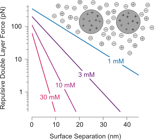 Double Layer Forces Salt Dependence Calculation